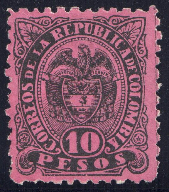 Colombia Rep. 1888 1o Pesos, mint. Signed.